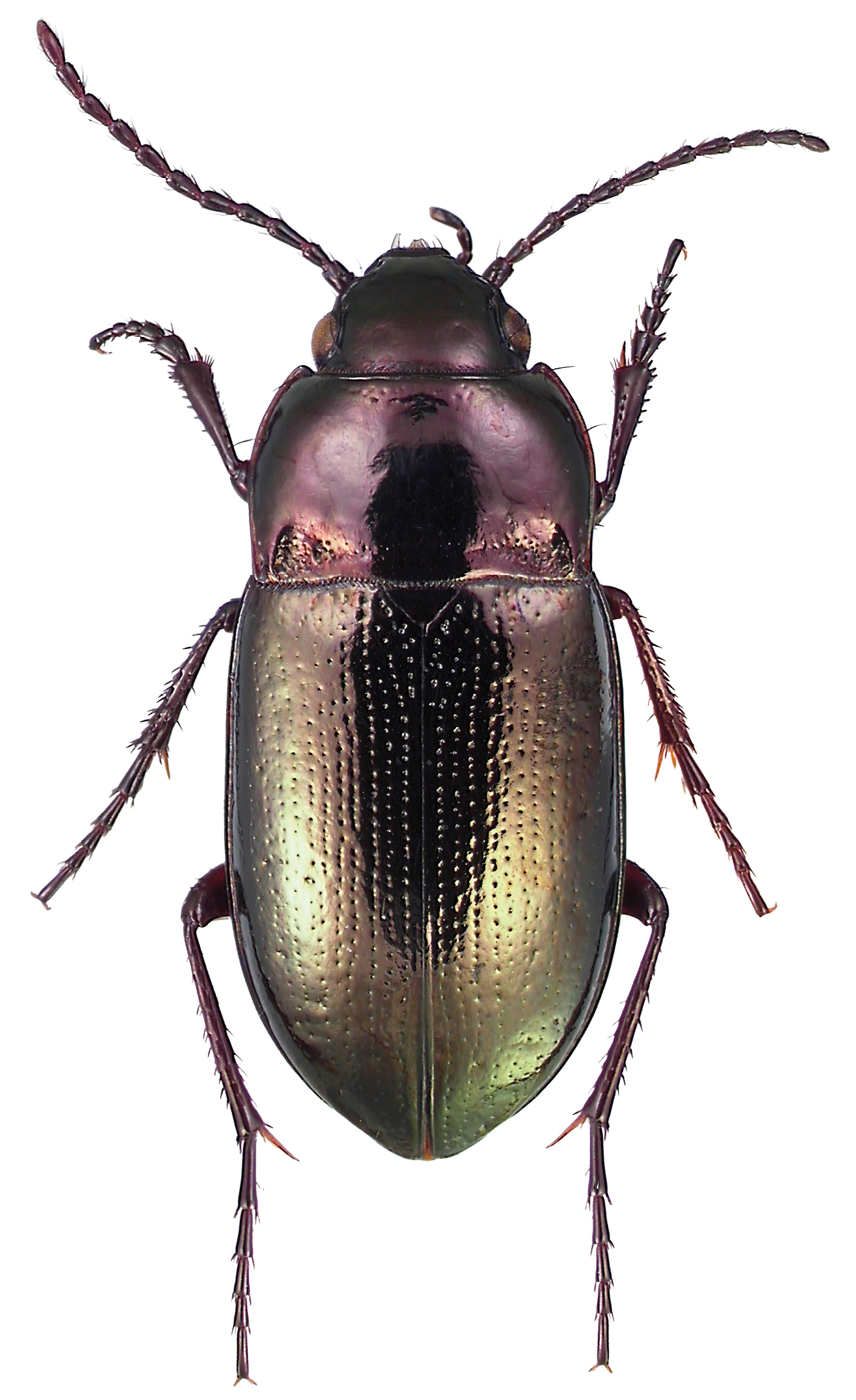 Trachypachus gibbsii LeConte. This species is a typical western element as are the other two North American trachypachids. Although superficially similar to some large Bembidion or small Amara and having the same ecological preferences, we now believe that these beetles, along with members of the related genus Systolosoma of South America, are not closely related to any groups of carabids.